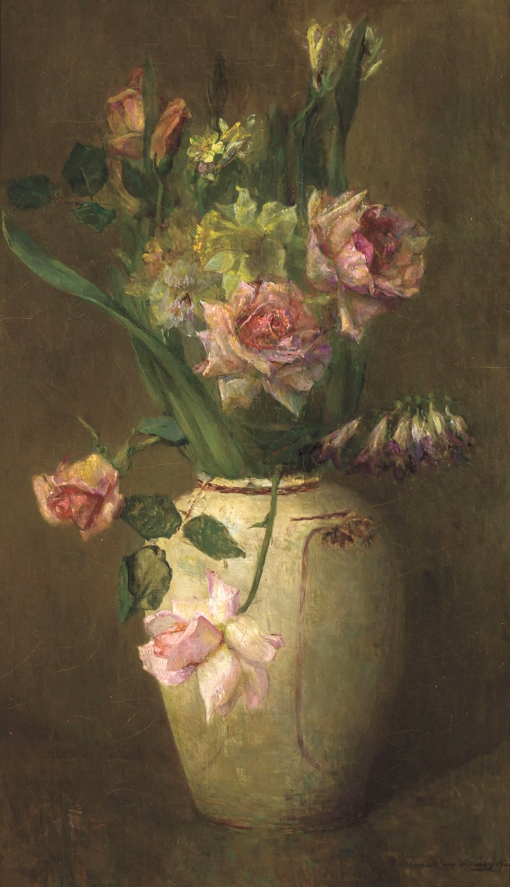 Springflowers with Roses, Daffodils and Larkspur by Maria Oakey Dewing, oil on canvas, 1923, 24 x 14 inches